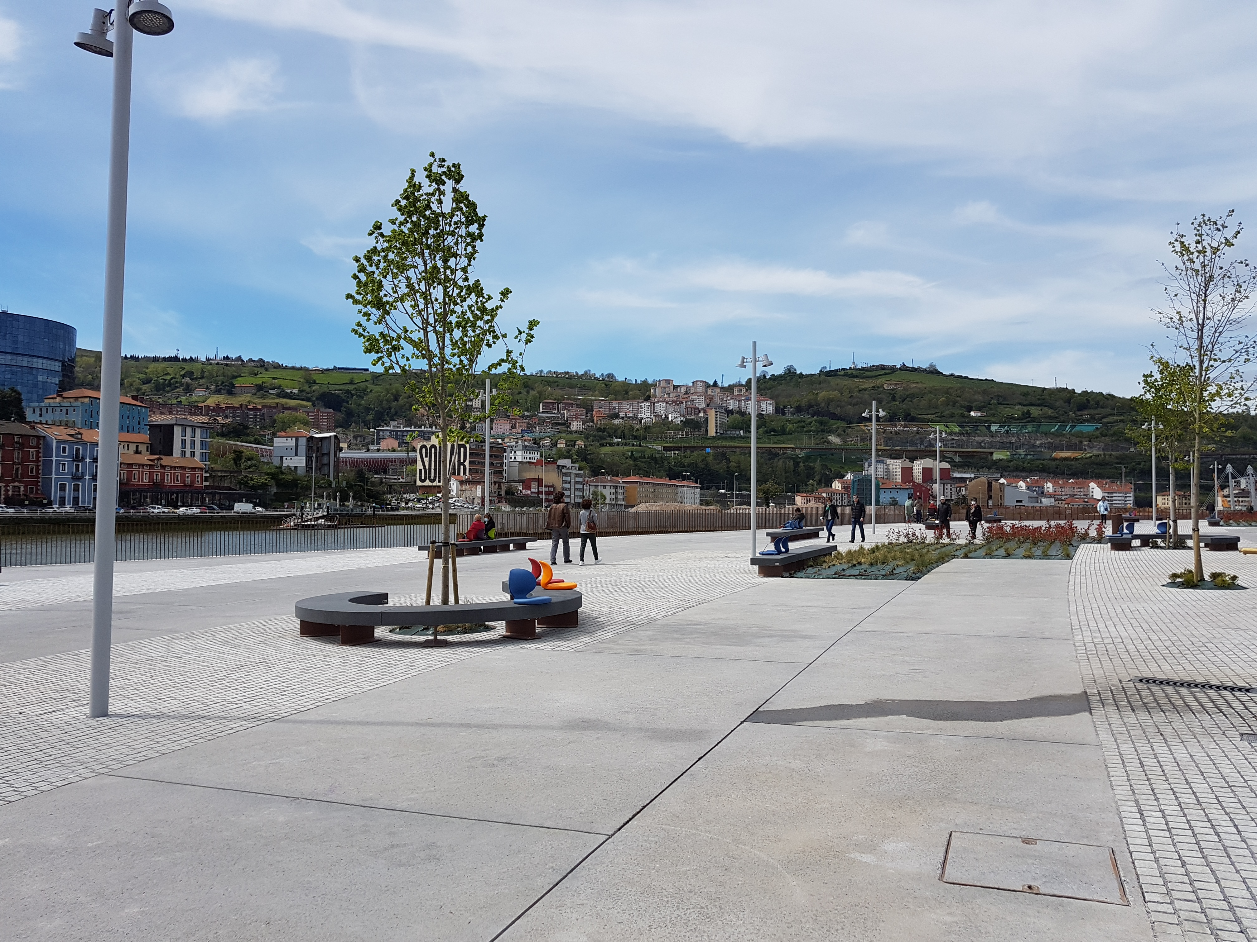 Autobús